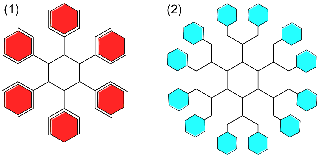 Dendrimers